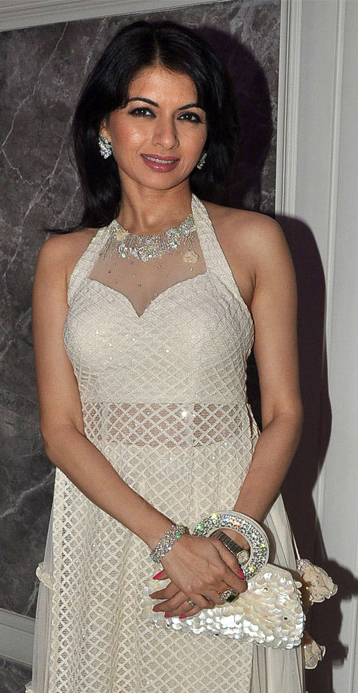 Bhagyashree